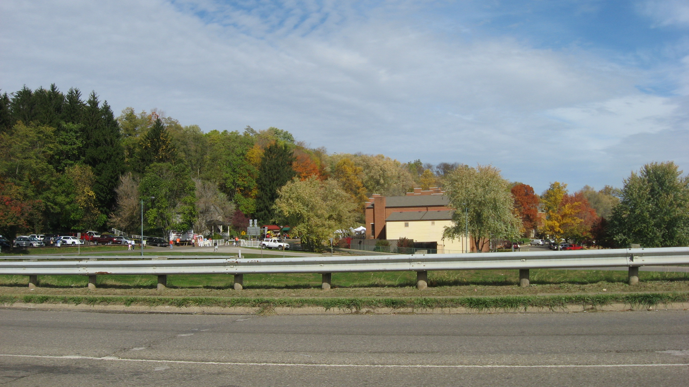 Distant view from the south of buildings at Roscoe Village in Coshocton, Ohio, United States. The village complex is listed on the National Register of Historic Places.